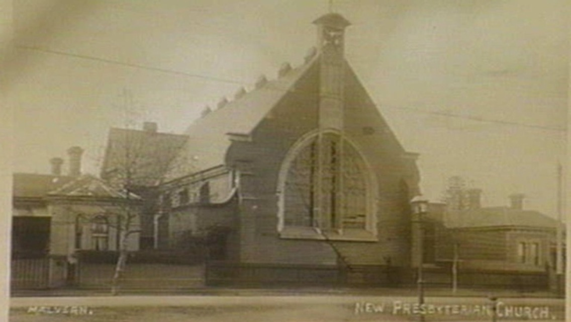 Designed by Robert J Haddon 1906 for George Fincham Organ at Malvern Presbyterian Church, Melbourne